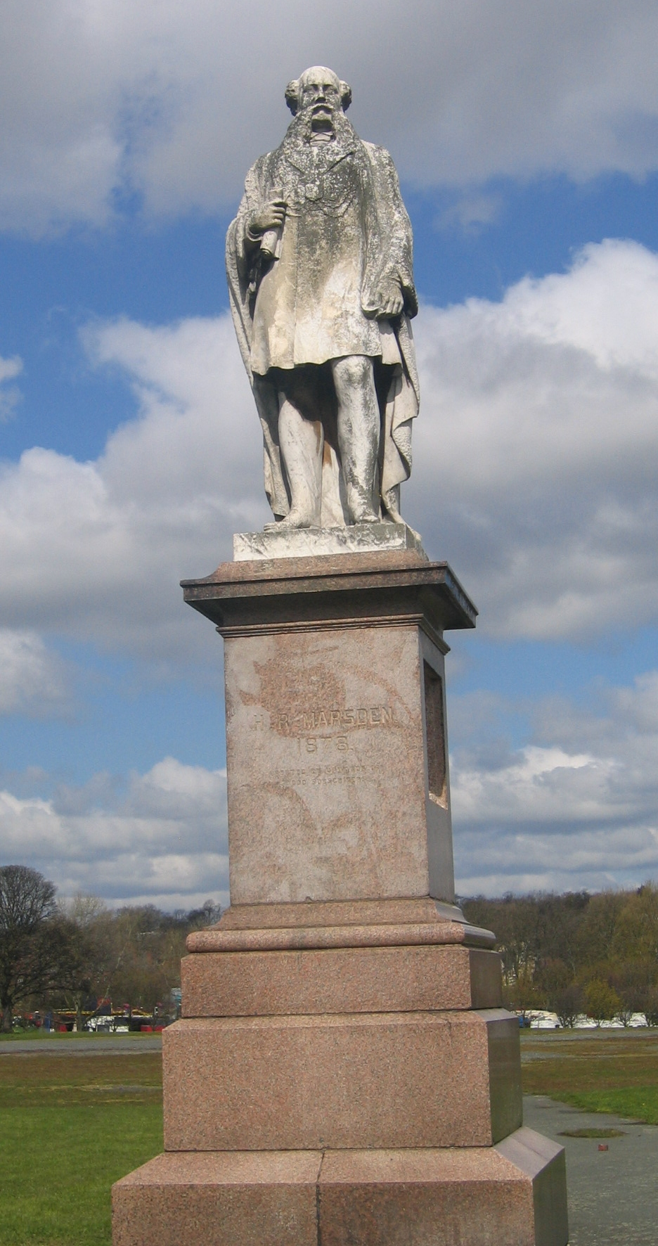 Statue of Henry Rowland Marsden (1878), Woodhouse Moor, Leeds